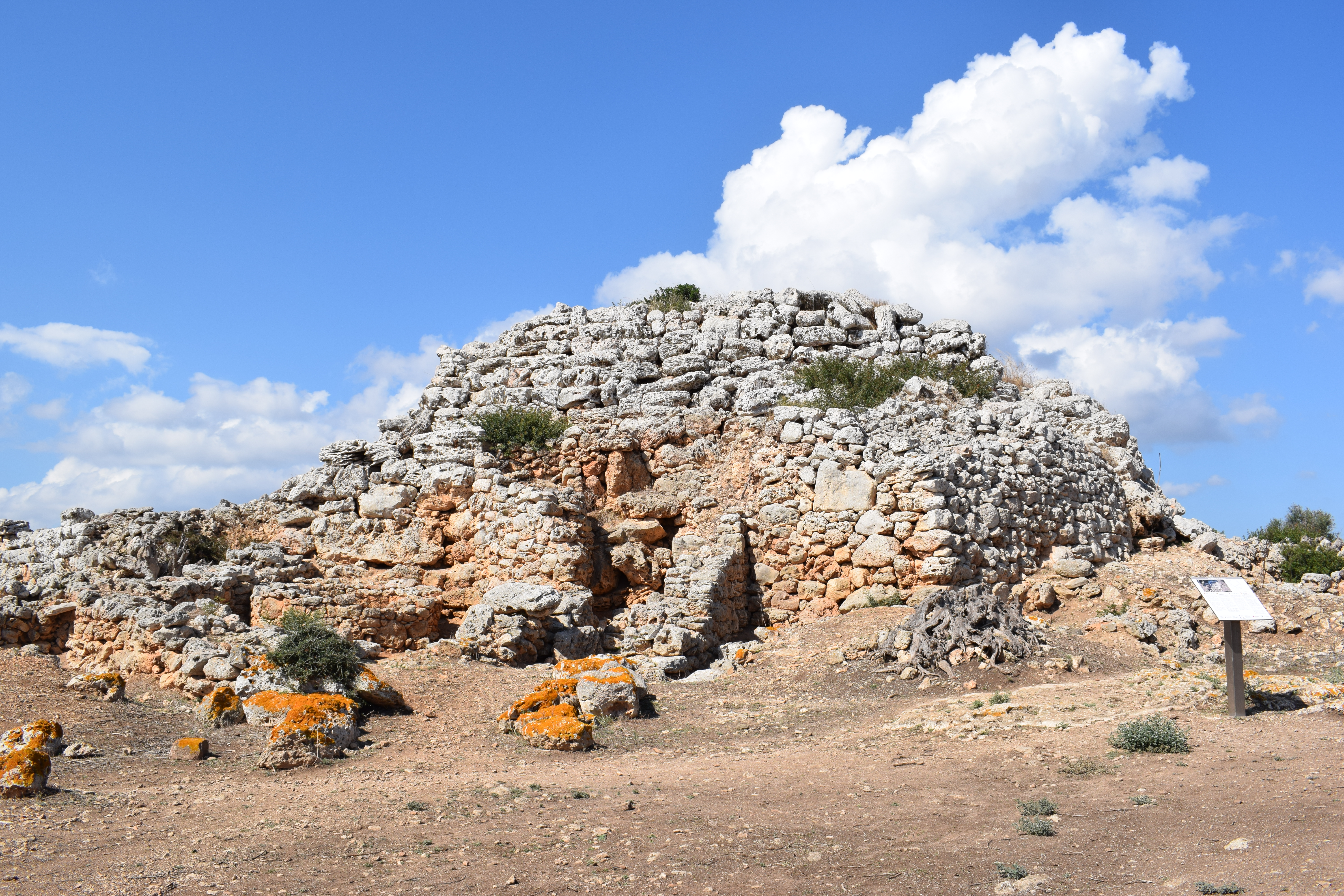 The large Talaiot at So na Caçana, Alaior, Minorca.